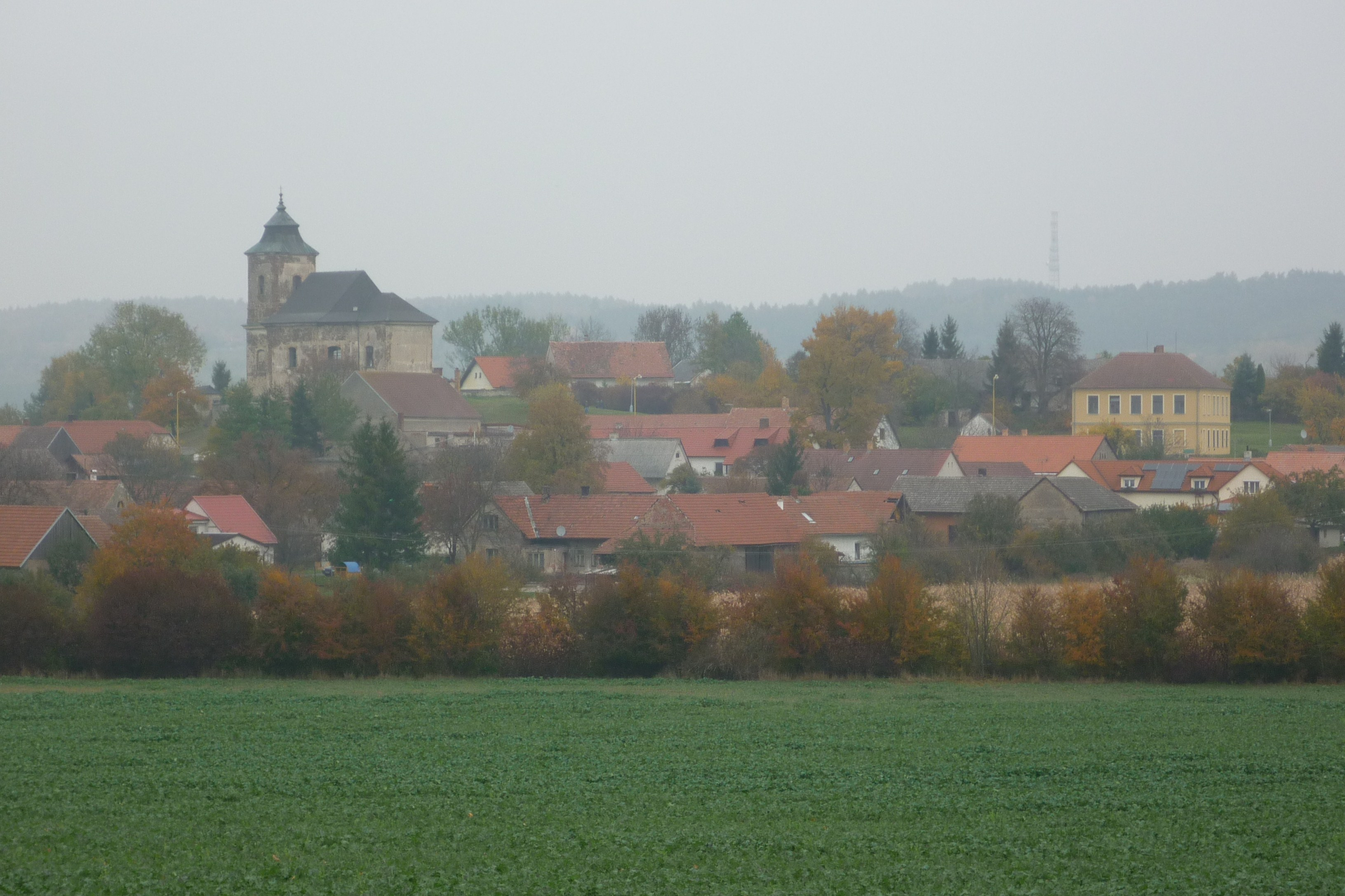 Starkoč village in Kutná Hora District, Czech Republic